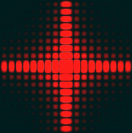 A computer simulation of the intensity pattern formed by a laser of 663 nm wavelength incident on a square aperture of 20 by 20 micrometer, visible on a screen placed 1 meter from the aperture. In reality the image measures 30 by 30 cm.